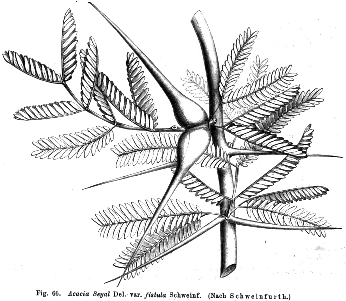 Illustration from book